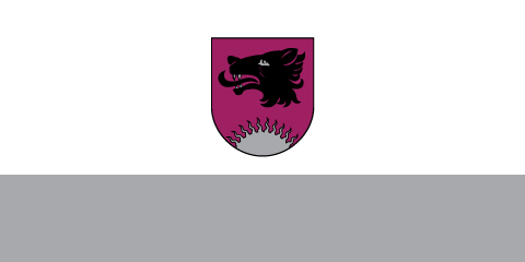 Flag of Balvi municipality